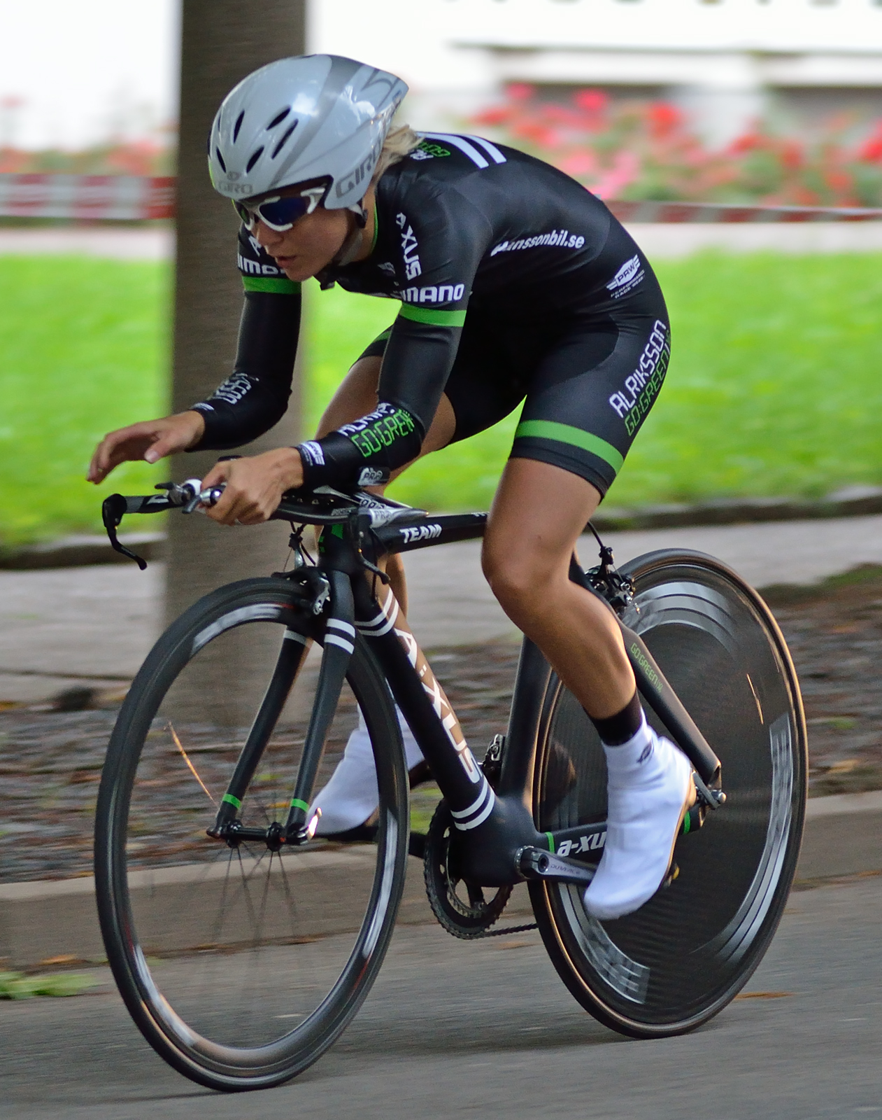 Jessica Kihlbom from the team Alrikkson Go:Green during the Women's Tour of Thuringia 2012 in Zwickau, Germany.